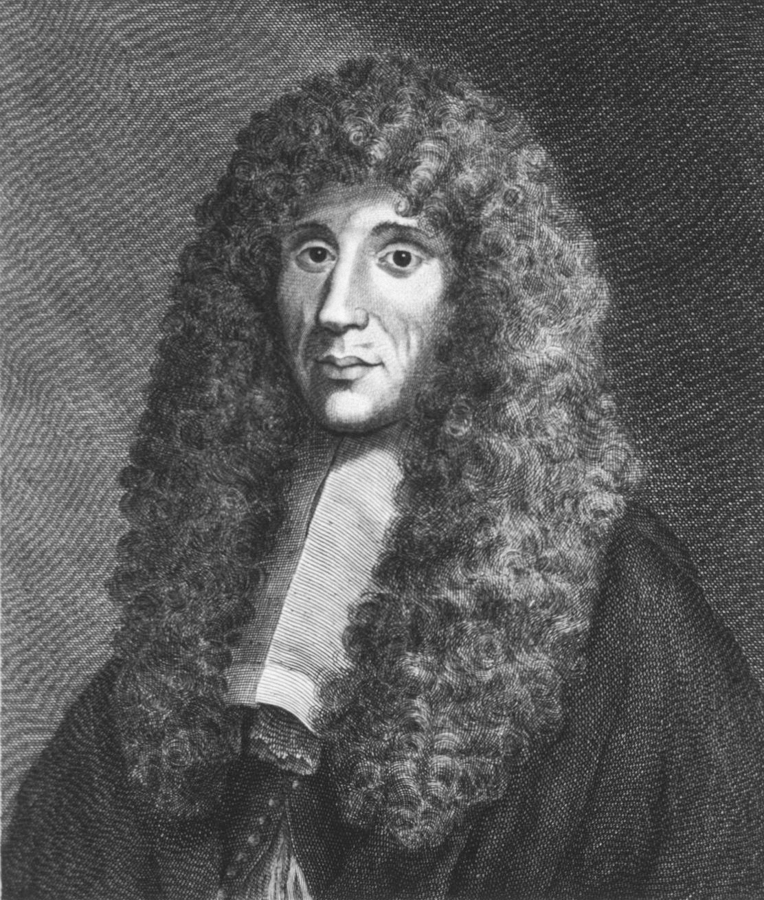 Portrait of Italian scientist Francesco Redi (1626–1697)